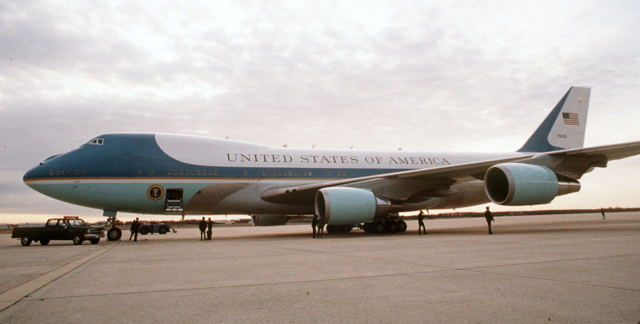 Principal differences between the VC-25A and the standard Boeing 747, other than the number of passengers carried, are the electronic and communications equipment aboard Air Force One, its interior configuration and furnishings, self-contained baggage loader, front and aft air-stairs, and the capability for in-flight refueling. These aircraft are flown by the presidential aircrew, maintained by the presidential maintenance branch, and are assigned to Air Mobility Command's 89th Airlift Wing, Andrews Air Force Base, Md.